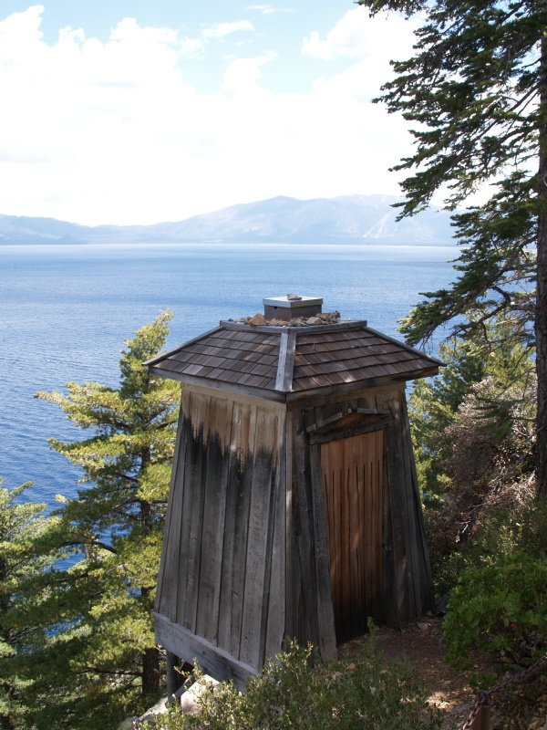 Rubicon Point Lighthouse (elevation: 6300 feet above sea level)